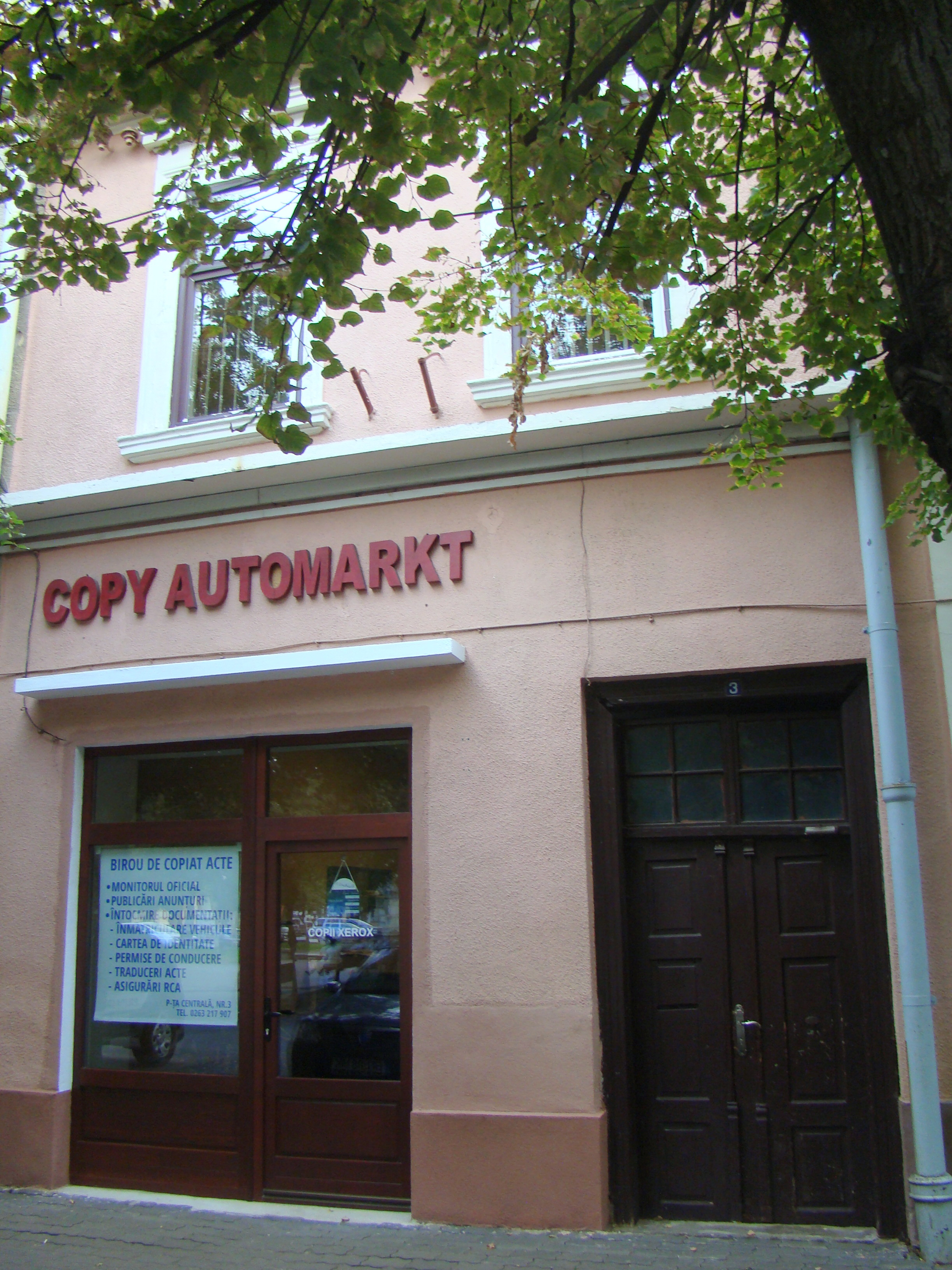 House, historic monument, in Bistrița, Piața Centrală 3